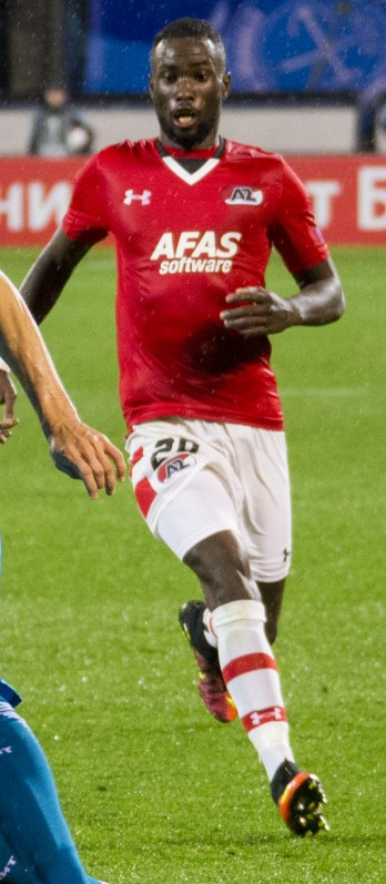 29.09.2016. Fernando Lewis